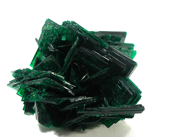 Torbernite Locality: Musonoi Mine, Kolwezi, Western area, Katanga Copper Crescent, Katanga (Shaba), Democratic Republic of Congo (Zaïre) (Locality at ) Size: miniature, 4 x 3.5 x 2.1 cm (Meta-)Torbernite Sharp crystals of "green wulfenite" as it is so often called. These are classics from the early 1980s, and remain unequaled for the species! Technically they are metatorbernite, but we call them torb's anyhow, colloquially. This is a superb miniature, complete all around, and of exceptional quality. The crystal size and quality is near the maximum found and certainly among the best on the market in some time. 4 x 3.5 x 2.1 cm